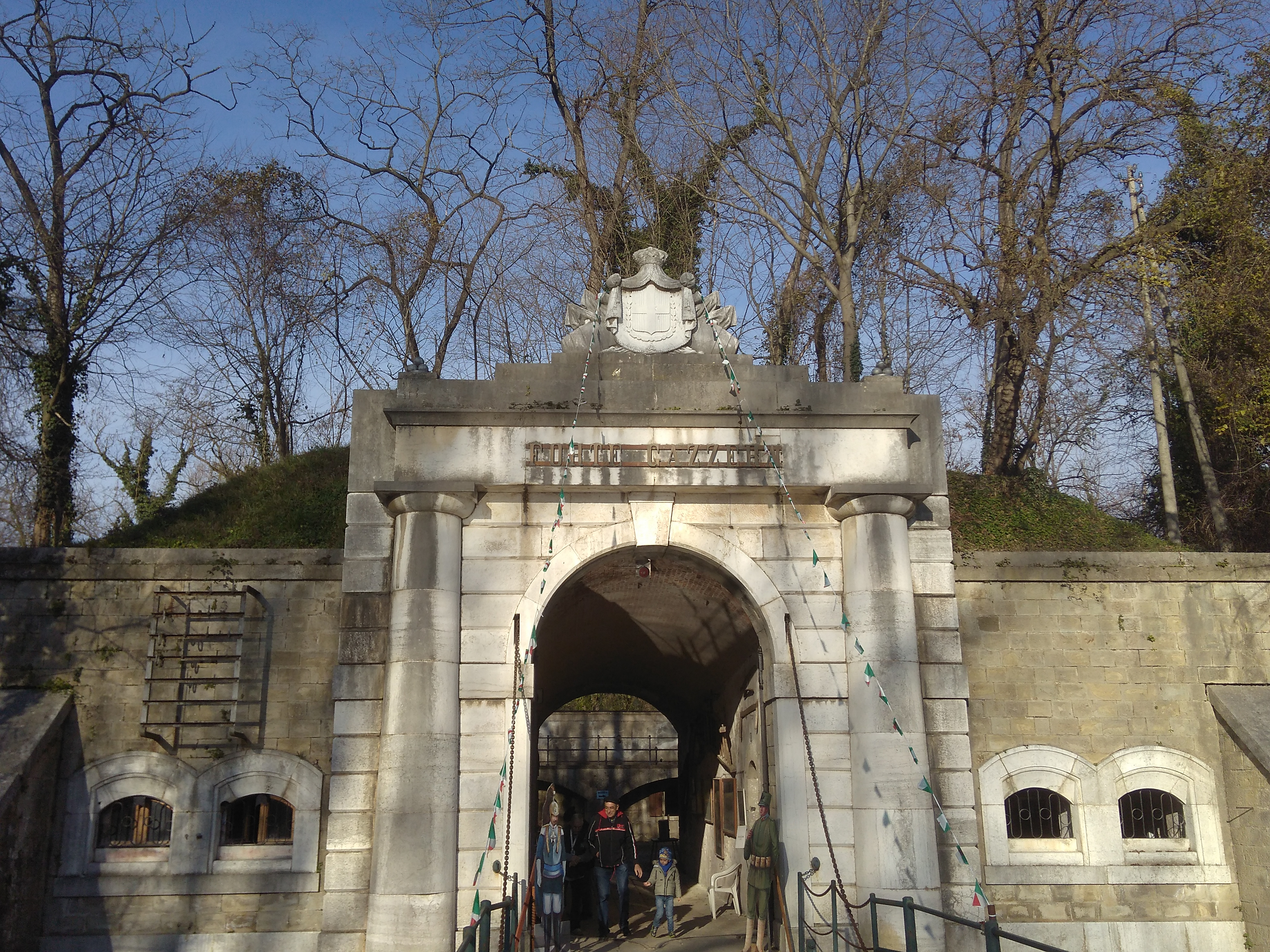 Front view of the entrance of Forte Gazzera